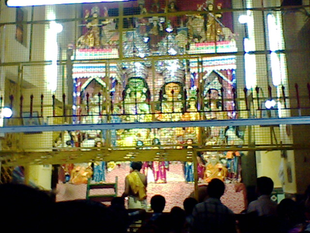 The idols of Ram Sita at Ramrajtala ,Howrah, India . A four month long Rampuja happens here . Also this is the reason why the name of this place is Ramrajatla